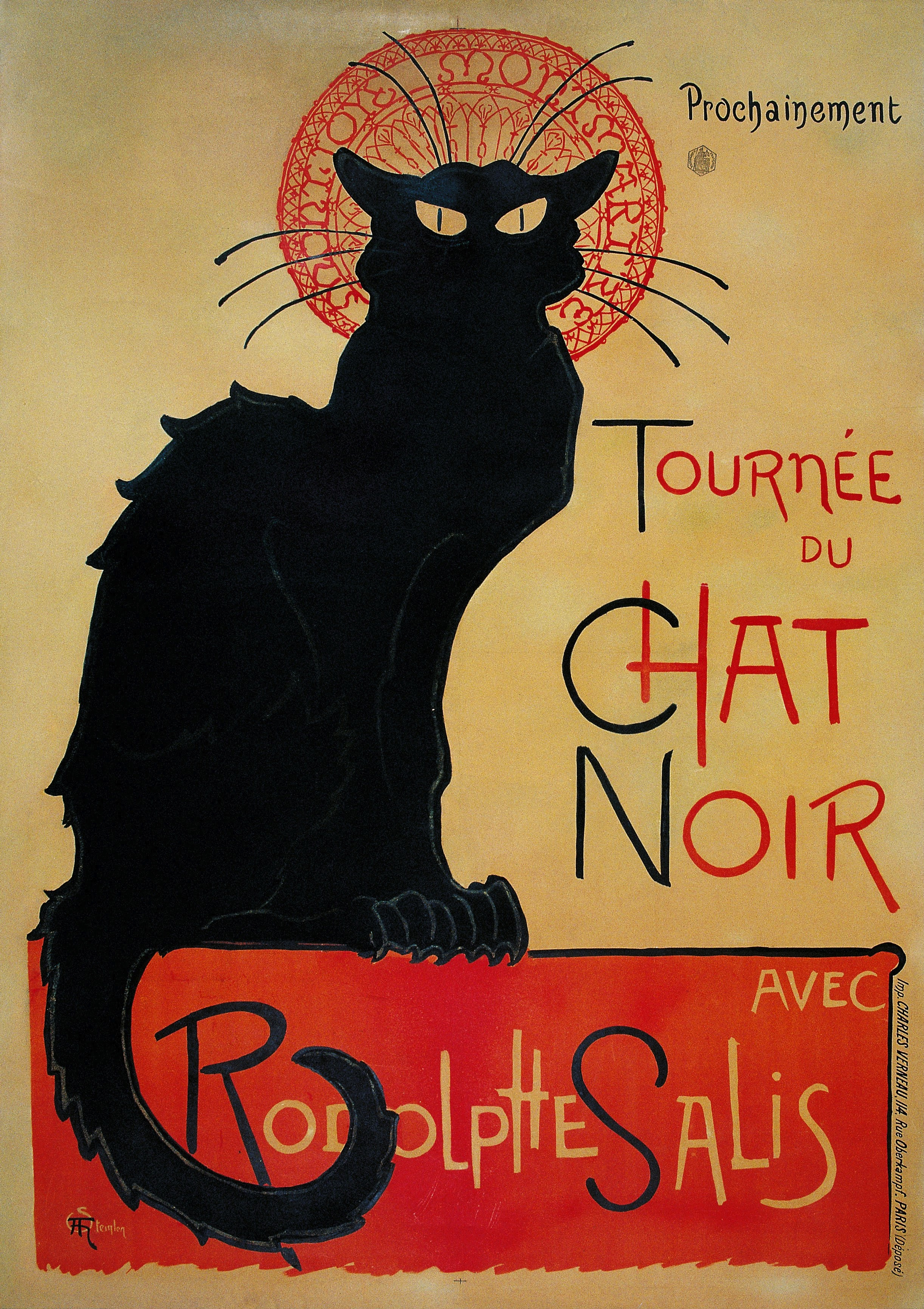 A copy of La Tournée du Chat noir, a well known poster advertising Le Chat Noir, a Parisian cabaret